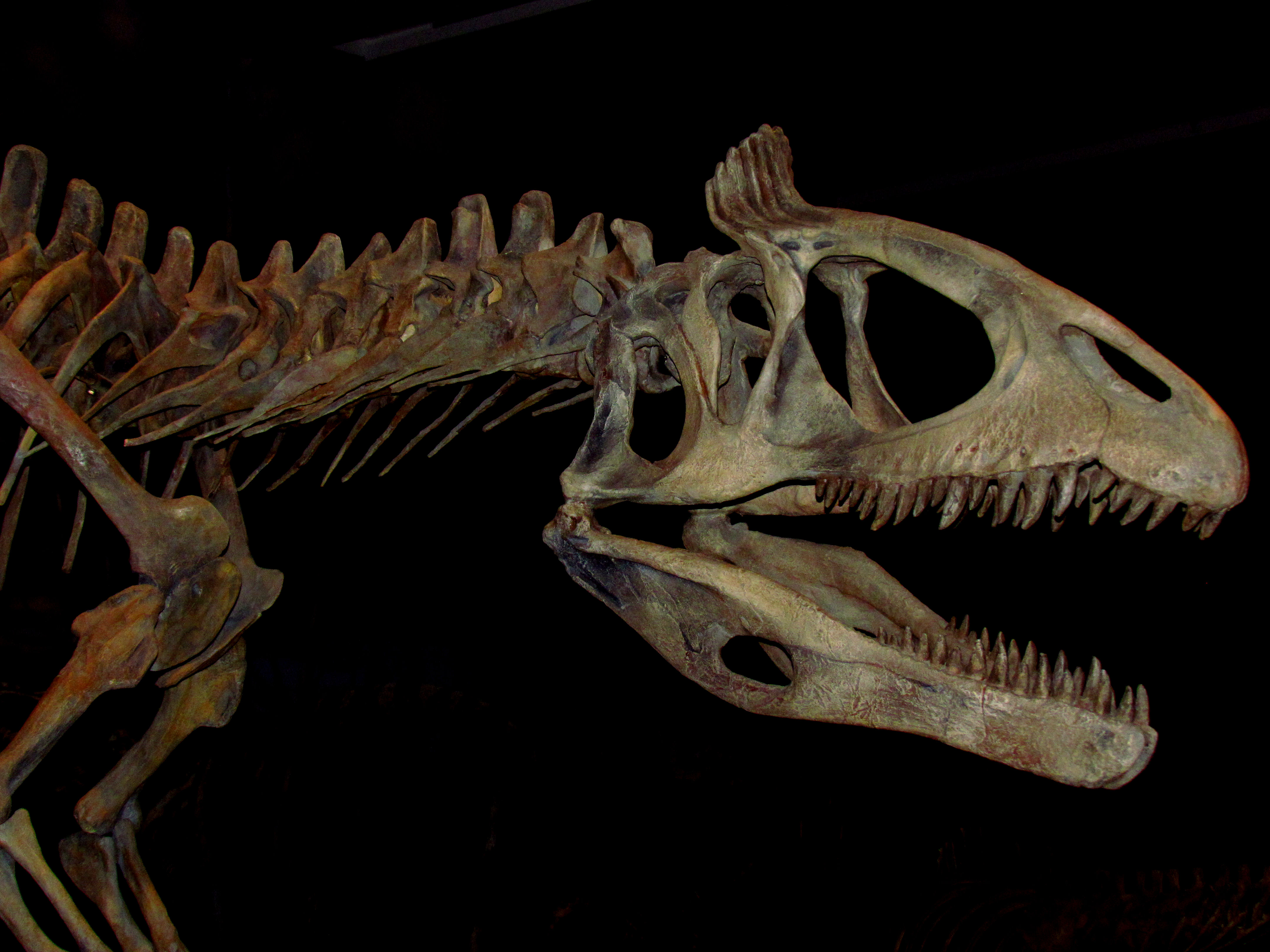 Cryolophosaurus ellioti, cast of head, Royal Ontario Museum, Toronto, Ontario, Canada